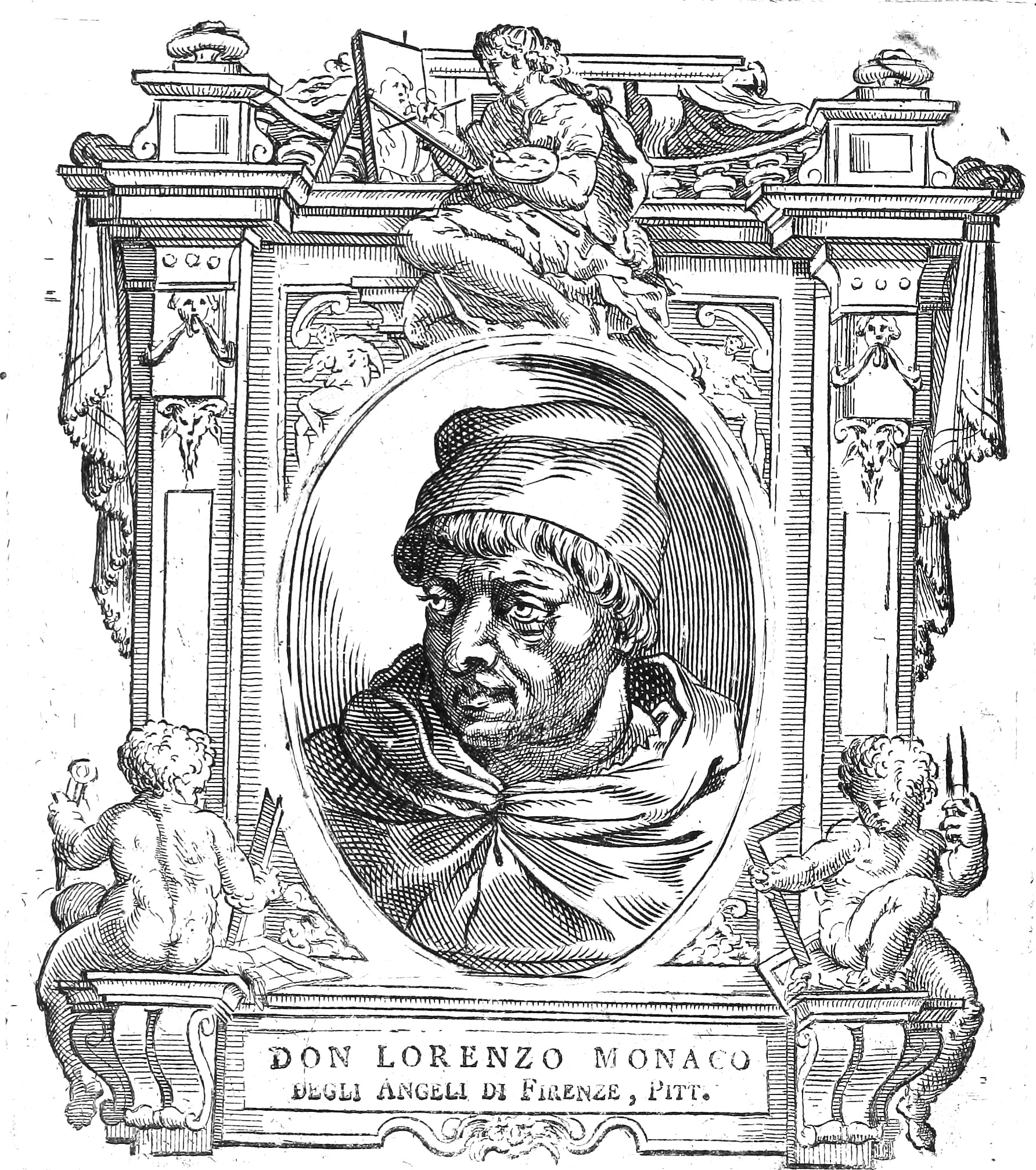 Title: Vite de più eccellenti pittori scultori ed architetti Year: 1767 (1760s) Authors: Vasari, Giorgio, 1511-1574 Coltellini, Marco, 1719-1777 printer Stecchi, Giovanni Batista, printer Pagani, Antonio Giuseppe, printer Masi, Tommaso, publisher Subjects: Artists Art, Italian Art, Renaissance Publisher: Livorno : Per Marco Coltellini Firenze : Per lo Stecchi e Pagani Text Appearing Before Image: ' Text Appearing After Image: 5°9VITA MONACO DEGLI ANGELI DI FIRENZEPITTORE, A Un a perfona buona, e religiofa, credo io, che Hadi gran concento il trovarti alle mani qualche efer-cizio onorato o di lettere, o di muiìca, o di pittura, odi altre liberali, e meccaniche arti, che non fiano biafime-voli, ma piuttofto di utile agii altri uomini, e di giova-mento; perciocché dopo i divini ufficj, fi paffa onoratamen-te il tempo col diletto, che fi piglia nelle dolci faticheelei piacevoli efercizj. A che fi aggiugne, che non folo è(limato, e tenuto in pregio dagli altri, folo che invidio!!non fiano, e maligni, mentre che vive, ma che ancora èdopo la morte da tutti gli uomini onorato, per lopere,€ buon nome, che di lui refla a coloro, che rimangono.E nel vero chi difpeafa il tempo in quella maniera, vivein quieta contemplazione, e fenza moleilia alcuna di que*flimoli ambiziofi, che negli feioperaci, ed oziofi, che perlo più fono ignoranti, con loro vergogna, e danno qualifempre fi veggiono. E fé pur avviene, che